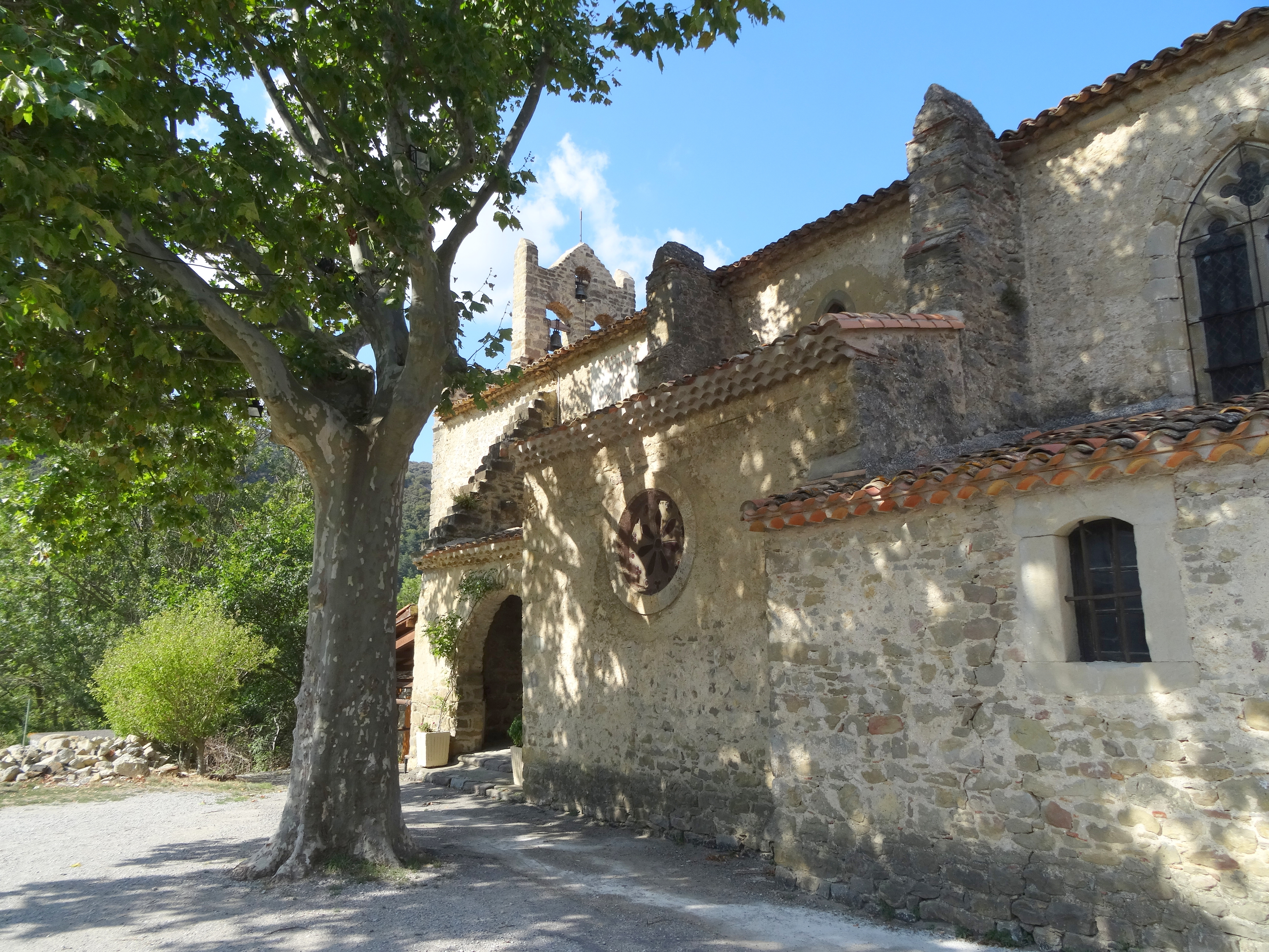 Greffeil . Eglise St Cyr et Ste Juliette .